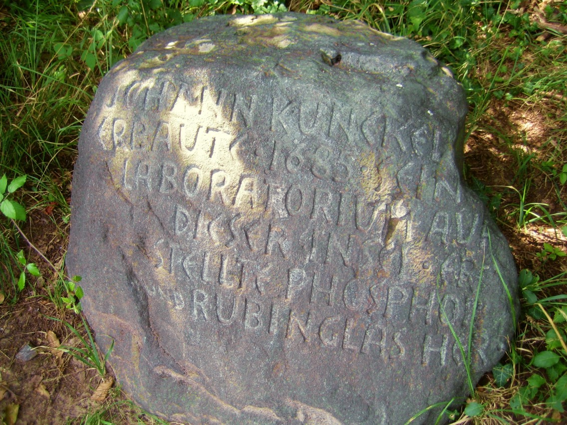 Berlin, Pfaueninsel (Isle of peacocks). Memorial for Johann Kunckel, a chemist who worked here in the late 17th century.